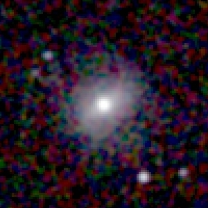 Galaxy NGC 438